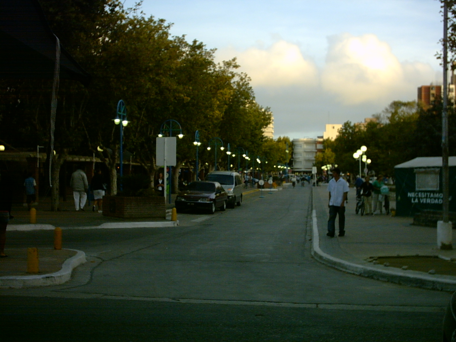 Street in Miramar Downtown (Pcia. de Buenos Aires)